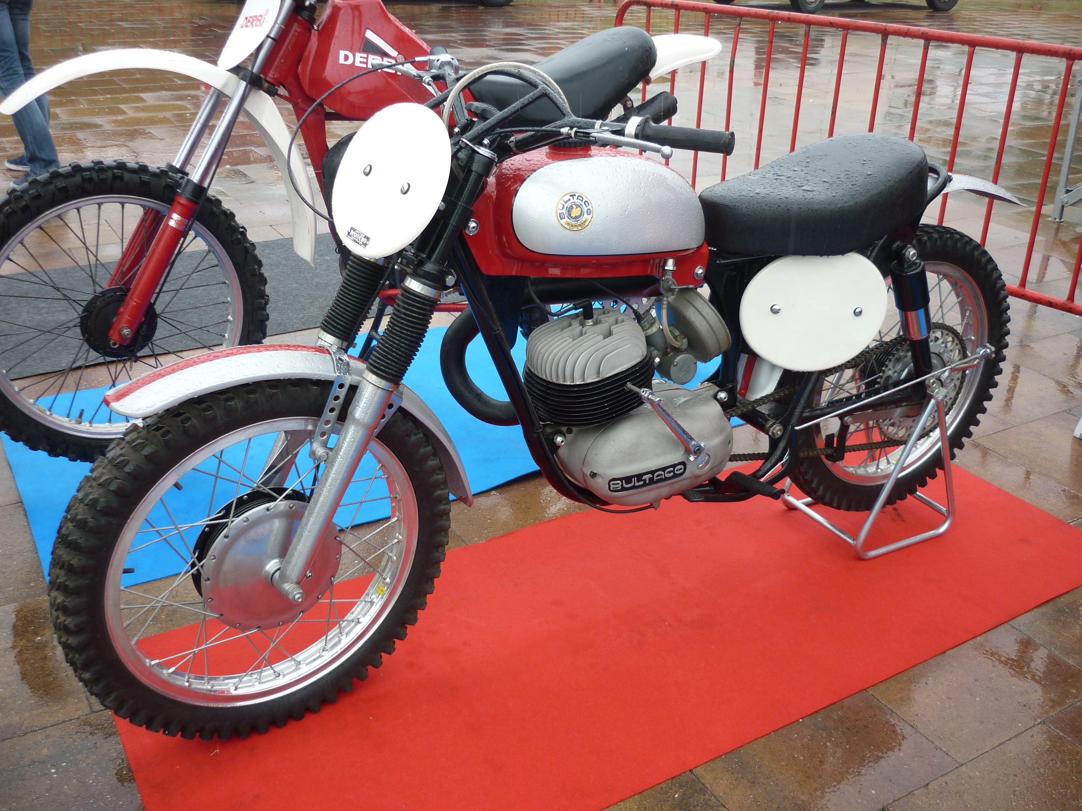 Bultaco Sherpa S 125, 125cc, 1964